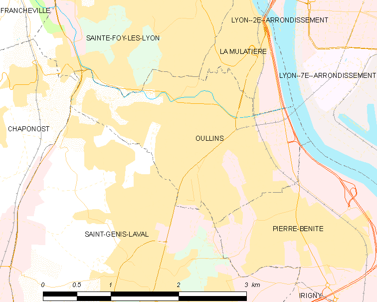 Map of French municipality